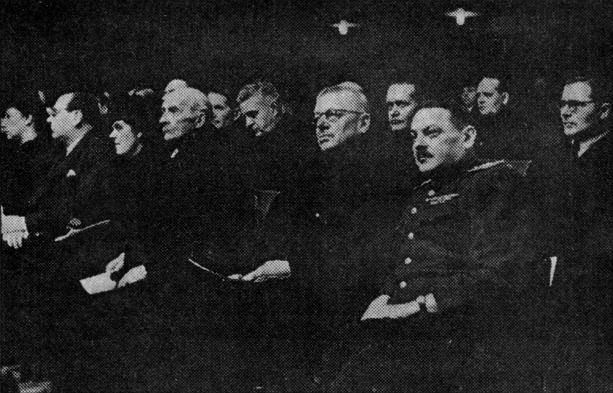 Andrei Zhdanov in the foreground to the right and Juho Paasikivi to his left.